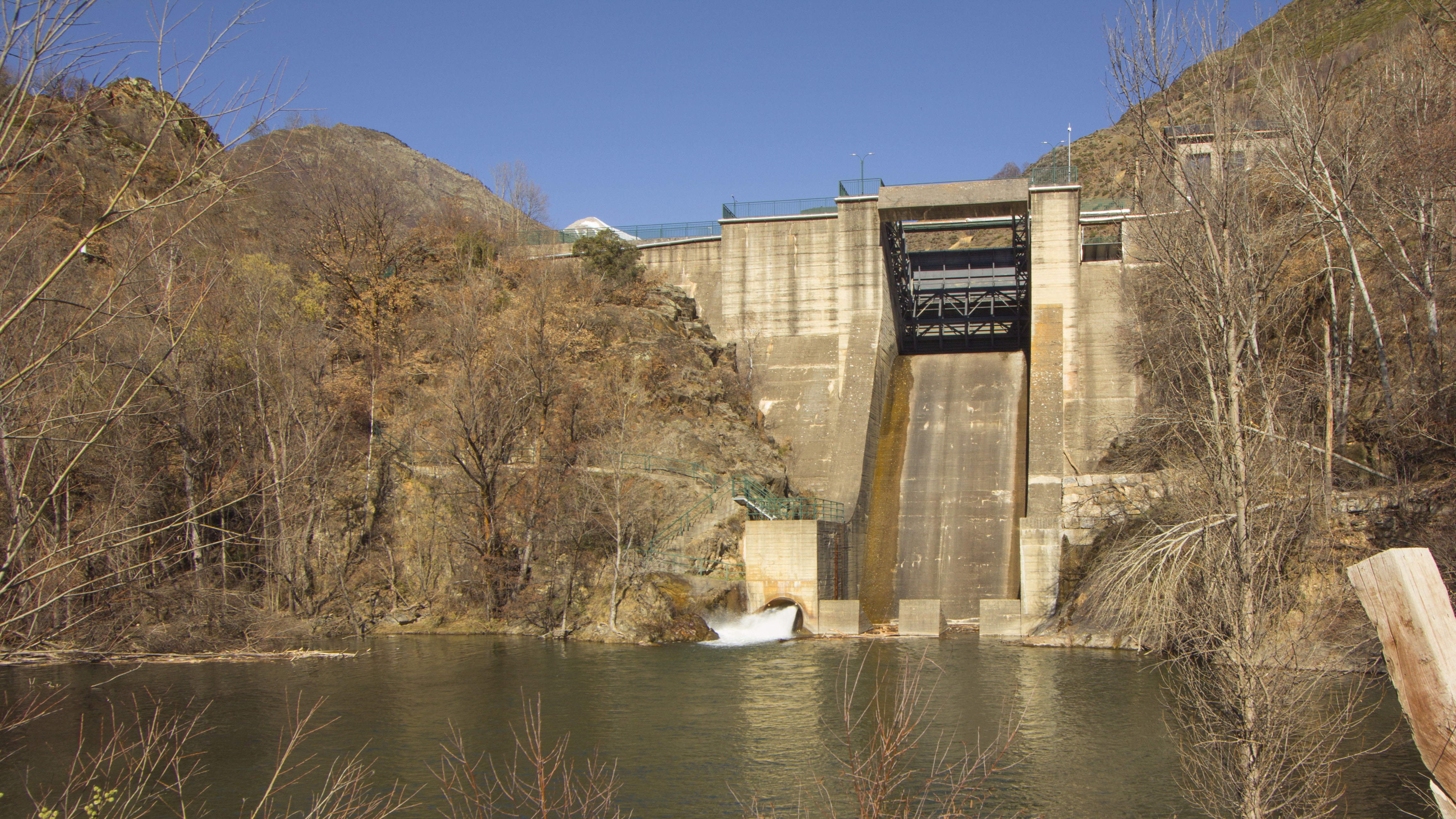 Borén dam (Catalan Pyrenees)